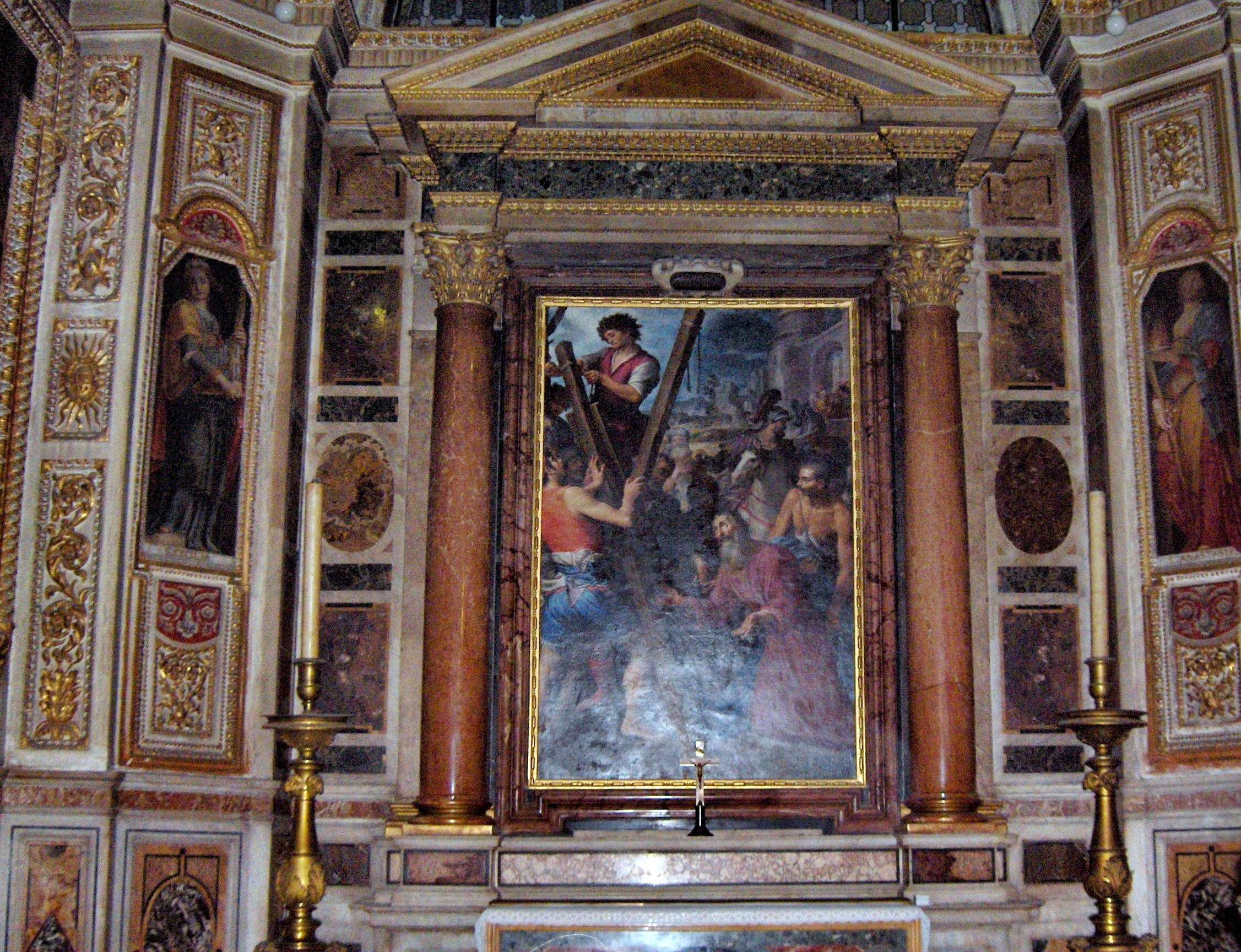 "The Martyrdom of St. Andrew", by Agostino Ciampelli (1577-1642), altarpiece in the Chapel of St. Andrew of the church Il Gesù, Rome, Italy